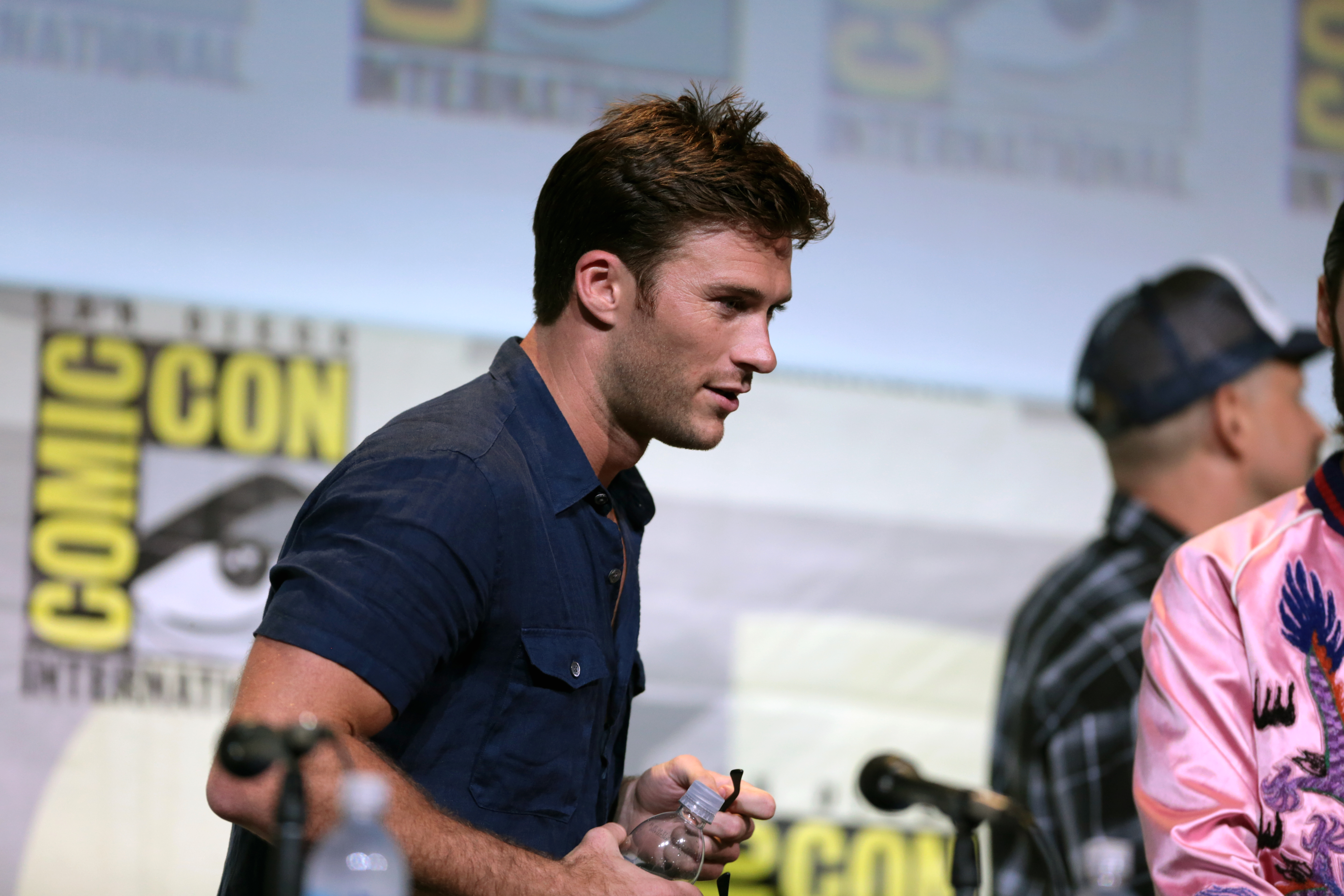 Scott Eastwood speaking at the 2016 San Diego Comic Con International, for "Suicide Squad", at the San Diego Convention Center in San Diego, California.